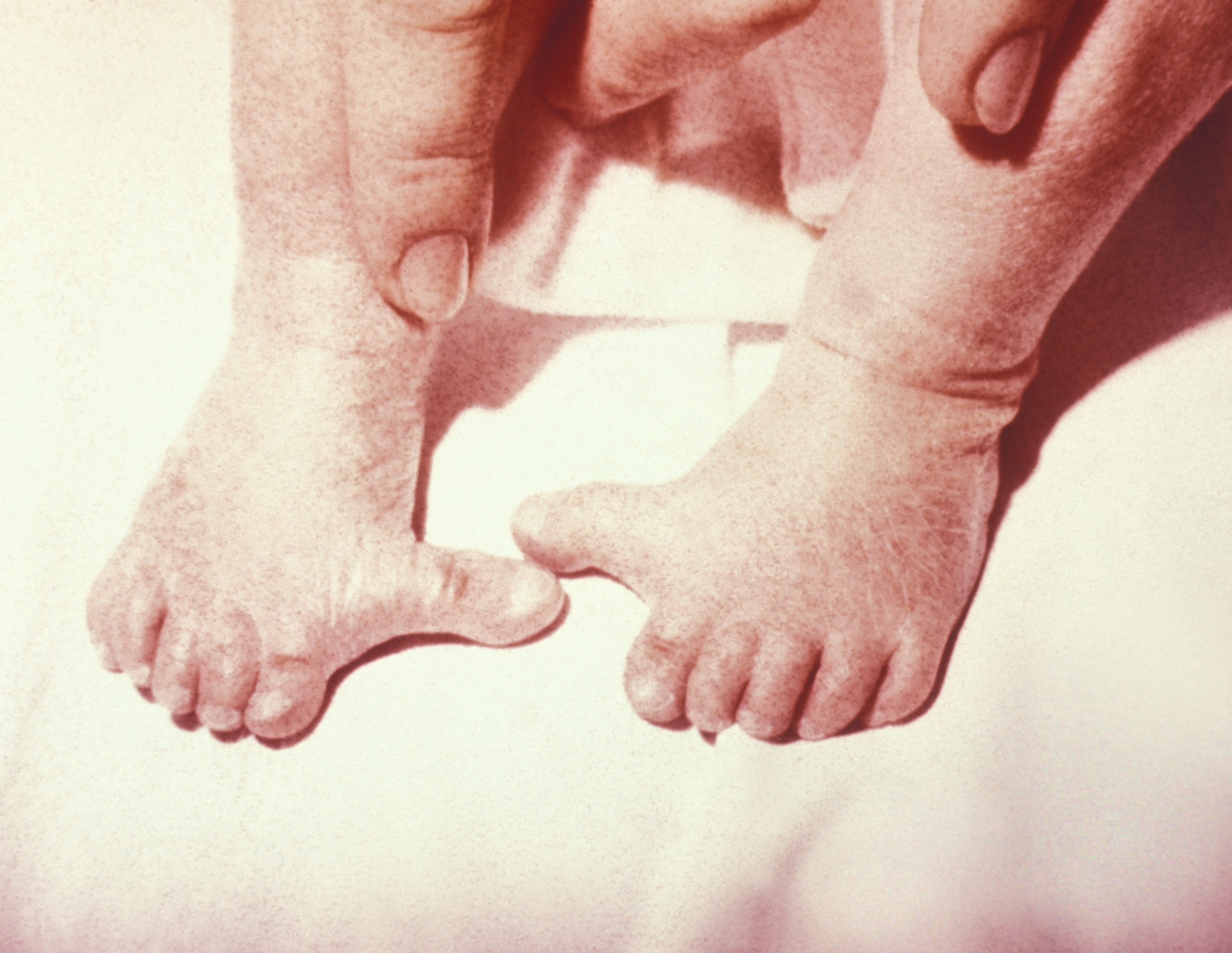 Polydactylia] involving both feet.""